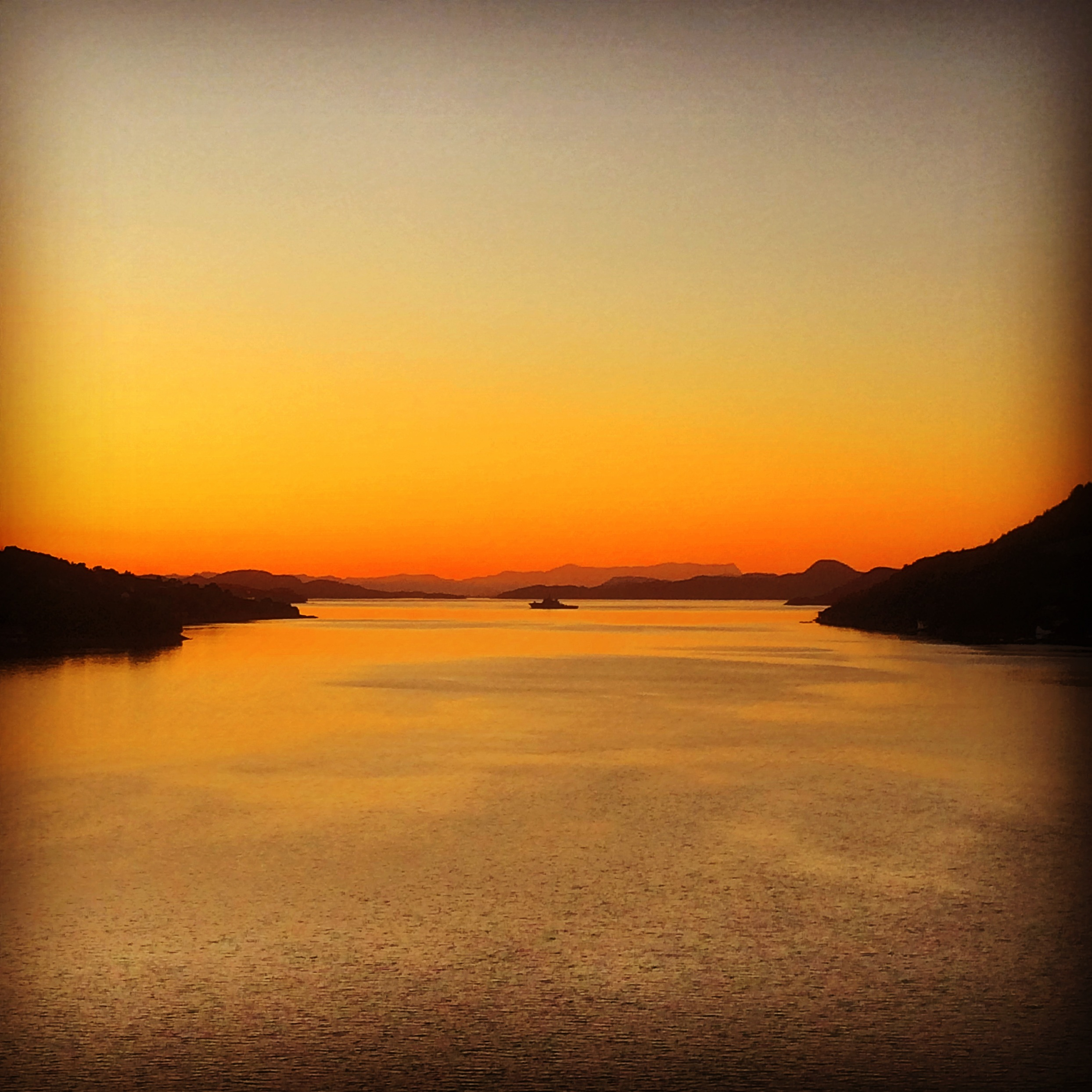 Ølensfjord in Ølen, Hordaland, Norway